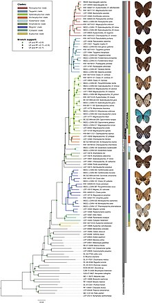 euptychiine_tree